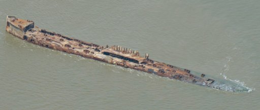 Aerial: Wreck of the S.S. Selma, launched June 28, 1919.